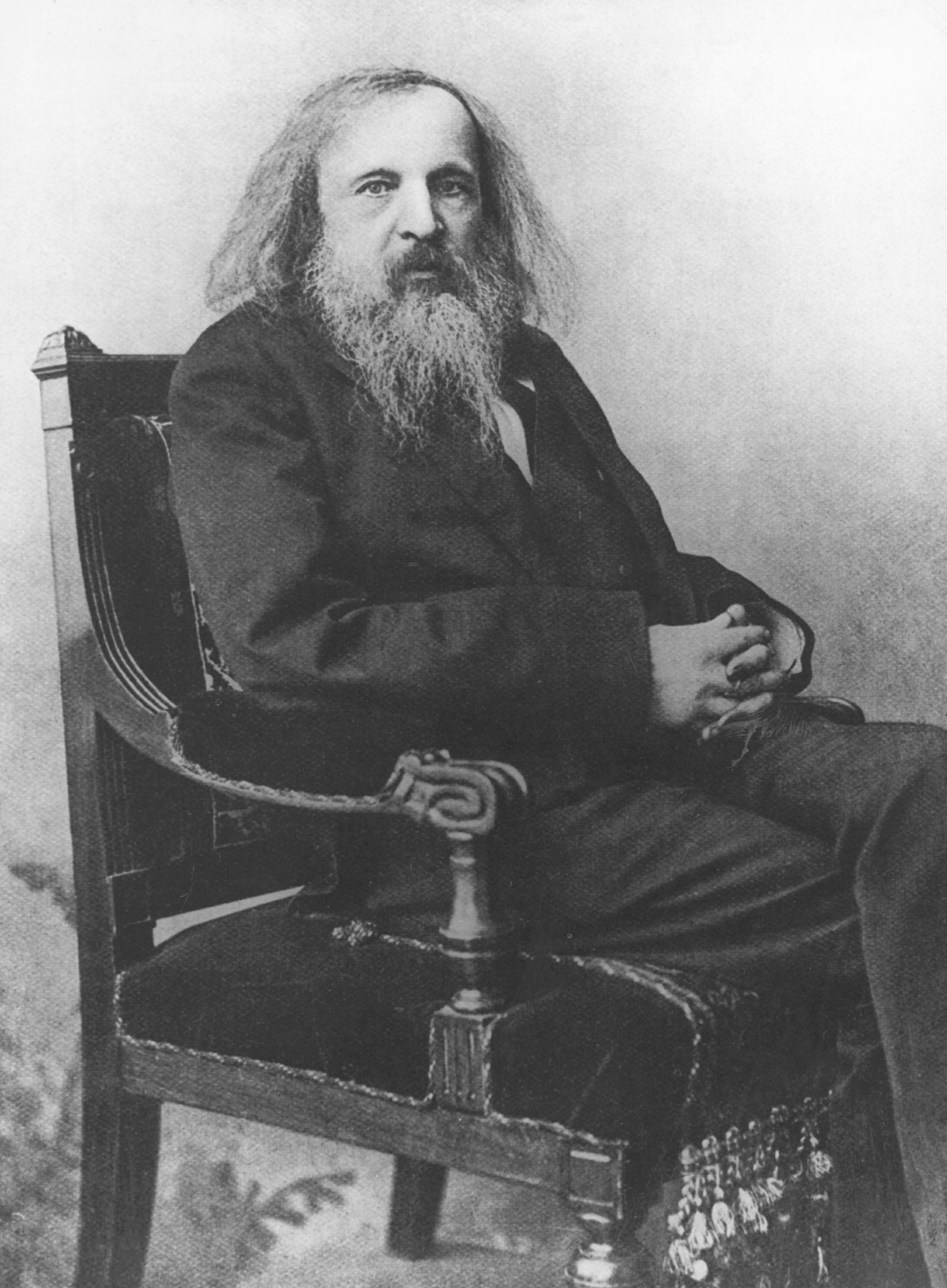 Dmitri Ivanovich Mendeleev (1834-1907), Russian chemist who discovered the periodic law of chemical elements, scientist-encyclopedist, educator and social activist